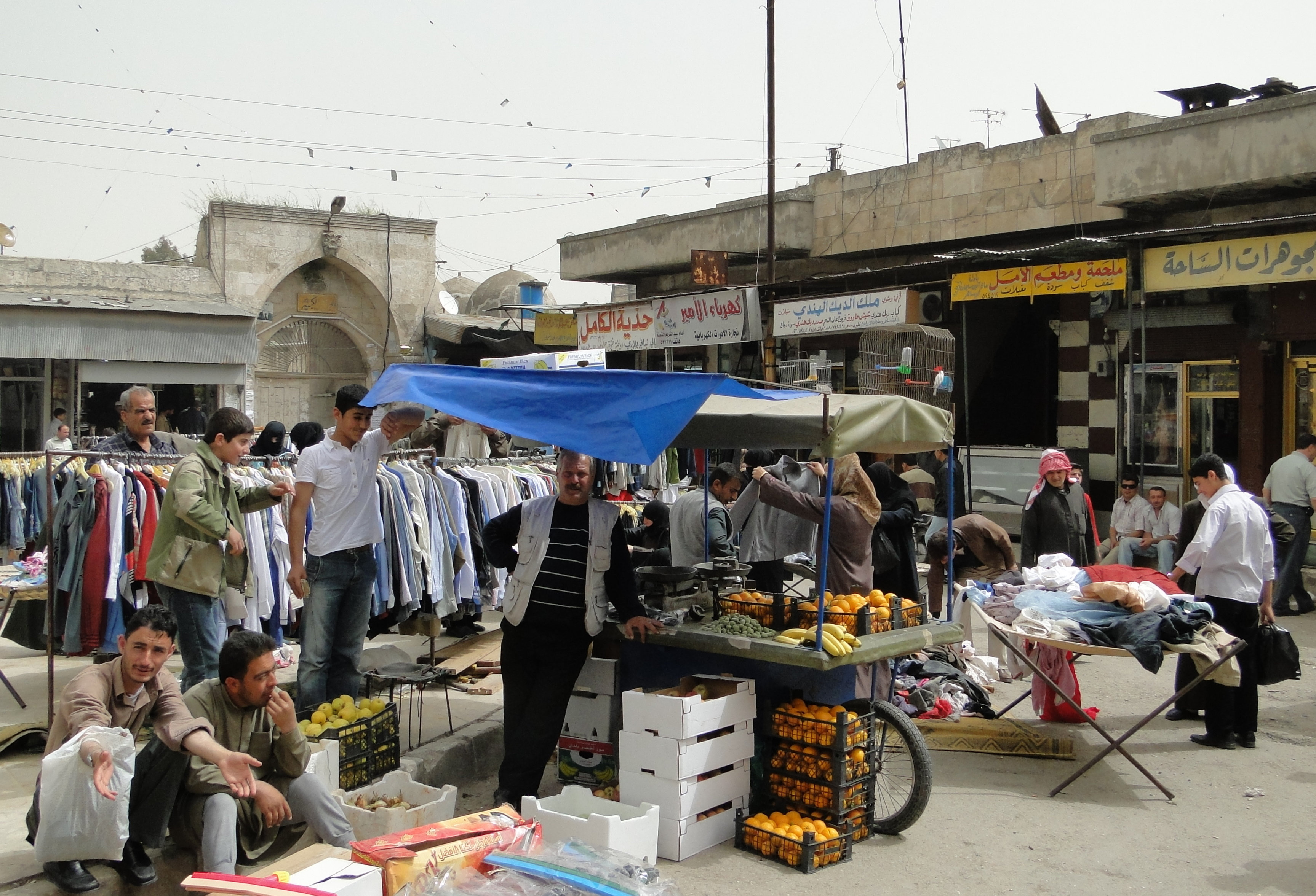 Ma'arrat al-Numan, Syria